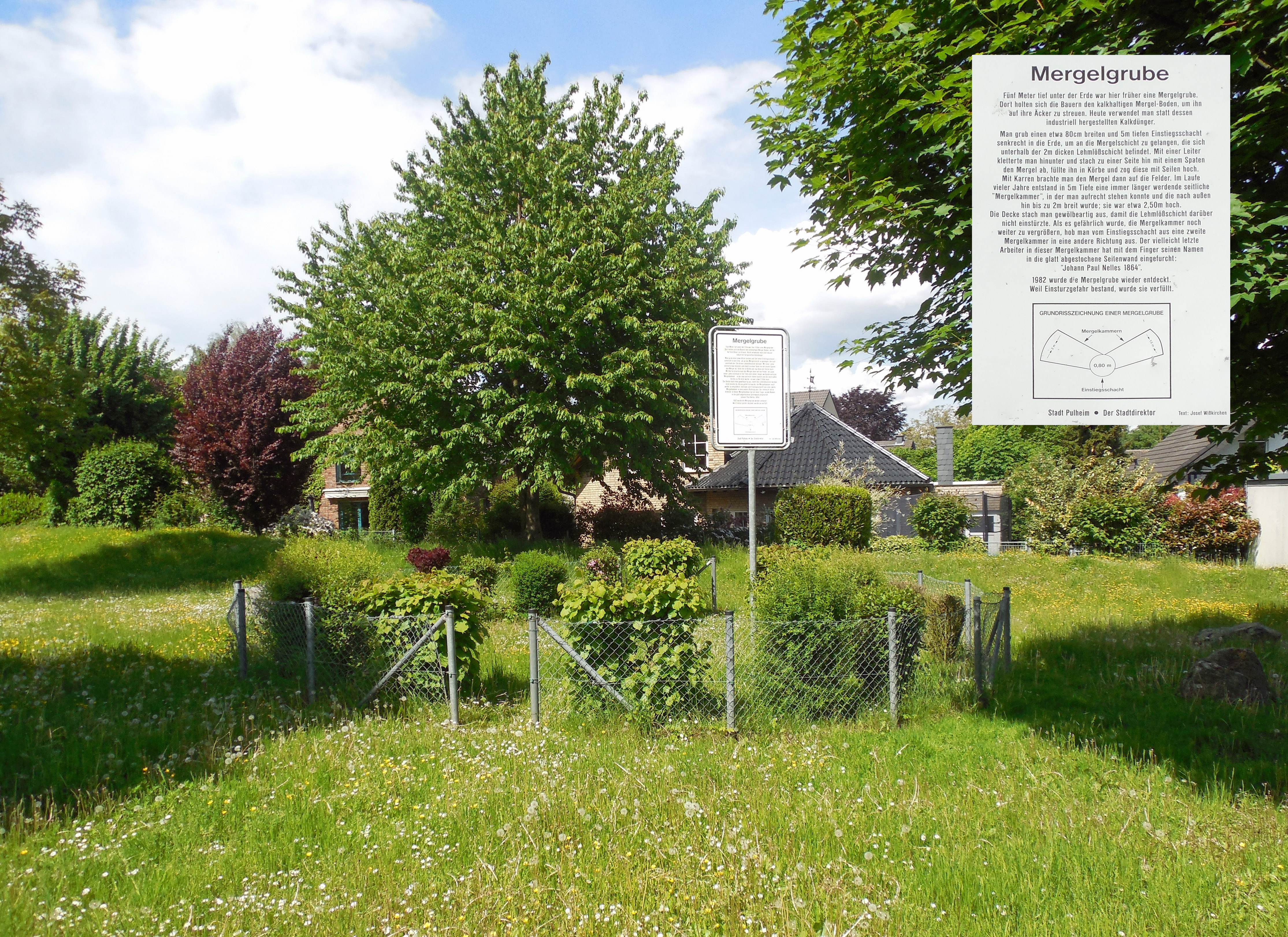 filled marl pit in Stommeln, near Cologne)